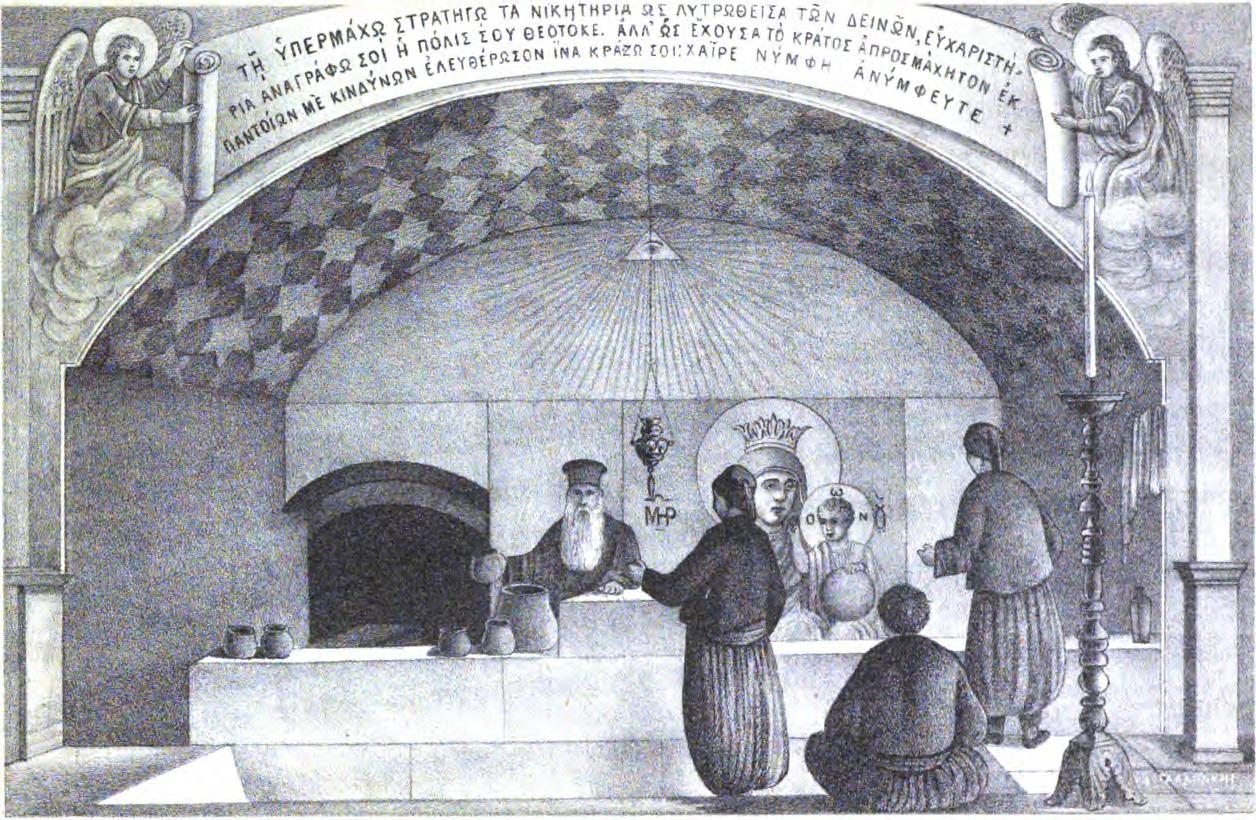 Byzantinai meletai topographikai (1877) Author: Paspatēs, Alexandros Geōrgiou, 1814-1891. [from old catalog] Subject: Inscriptions, Greek Year: 1877 Possible copyright status: NOT_IN_COPYRIGHT Language: English Digitizing sponsor: Google Book contributor: Oxford University Collection: europeanlibraries